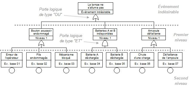 Example of fault tree